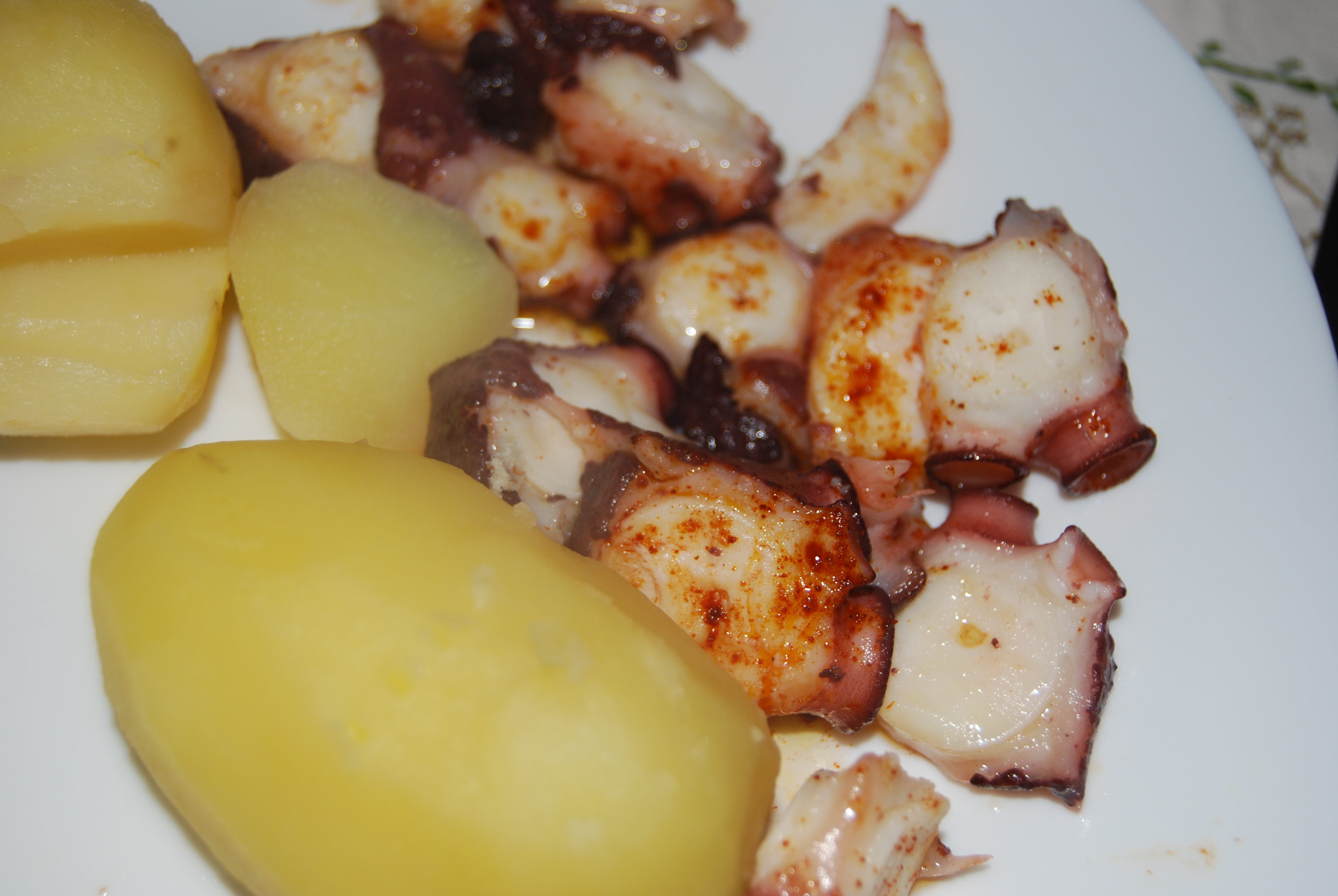 Octopus with boiled potatoes